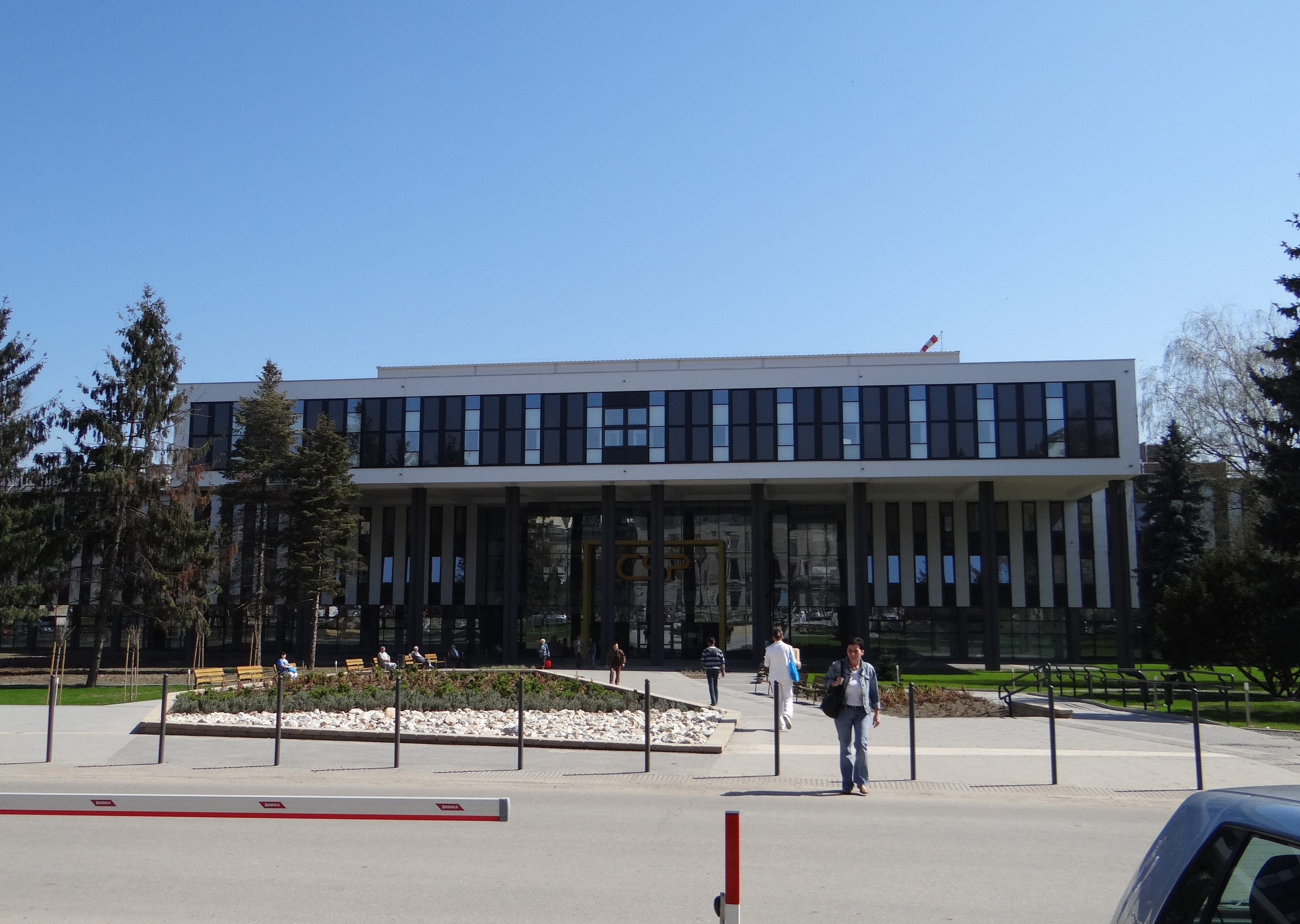 New central building, called Star Point, in the County Hospital, Miskolc, Hungary